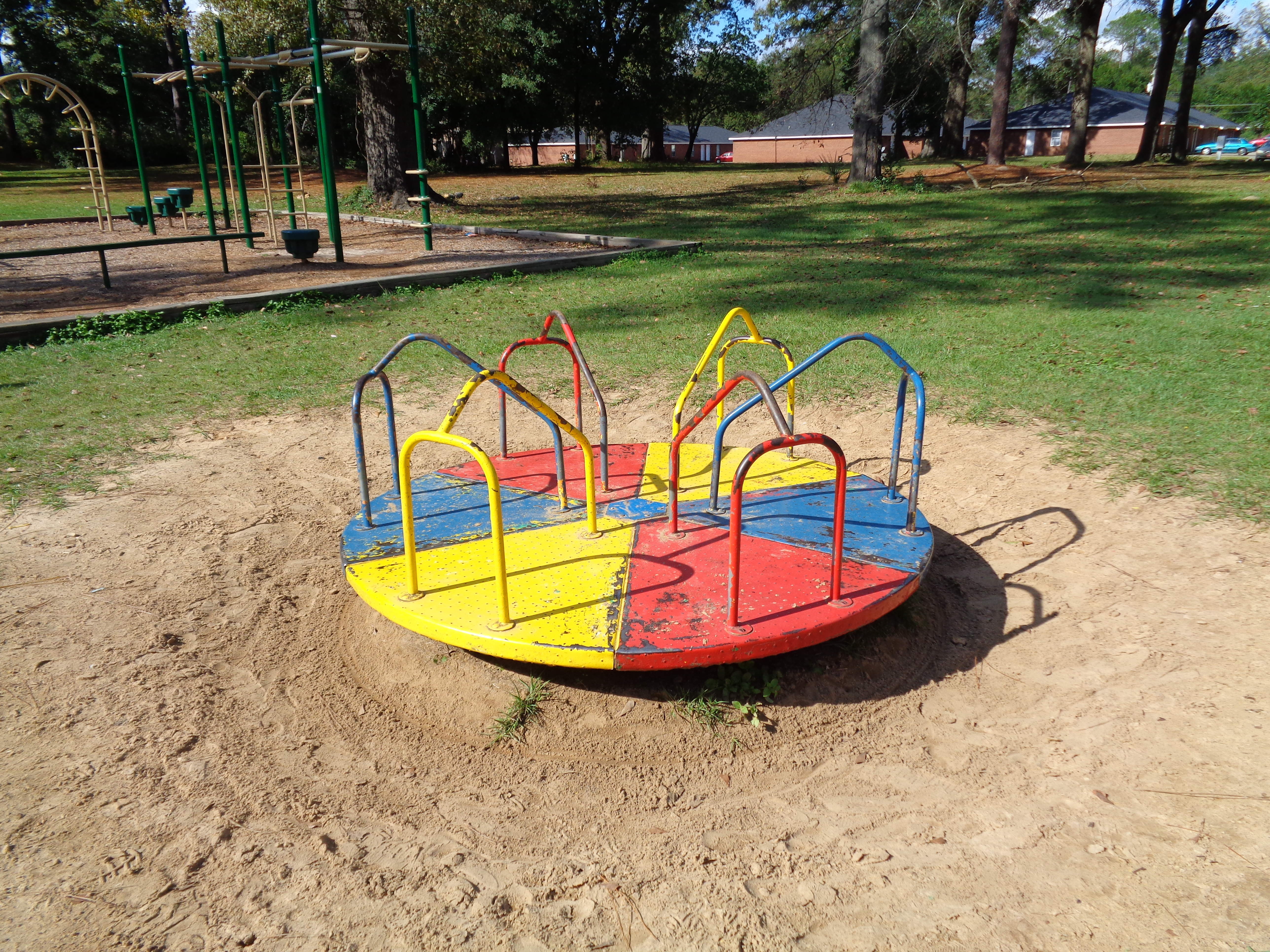 Tift Park, Albany, Dougherty County, Georgia